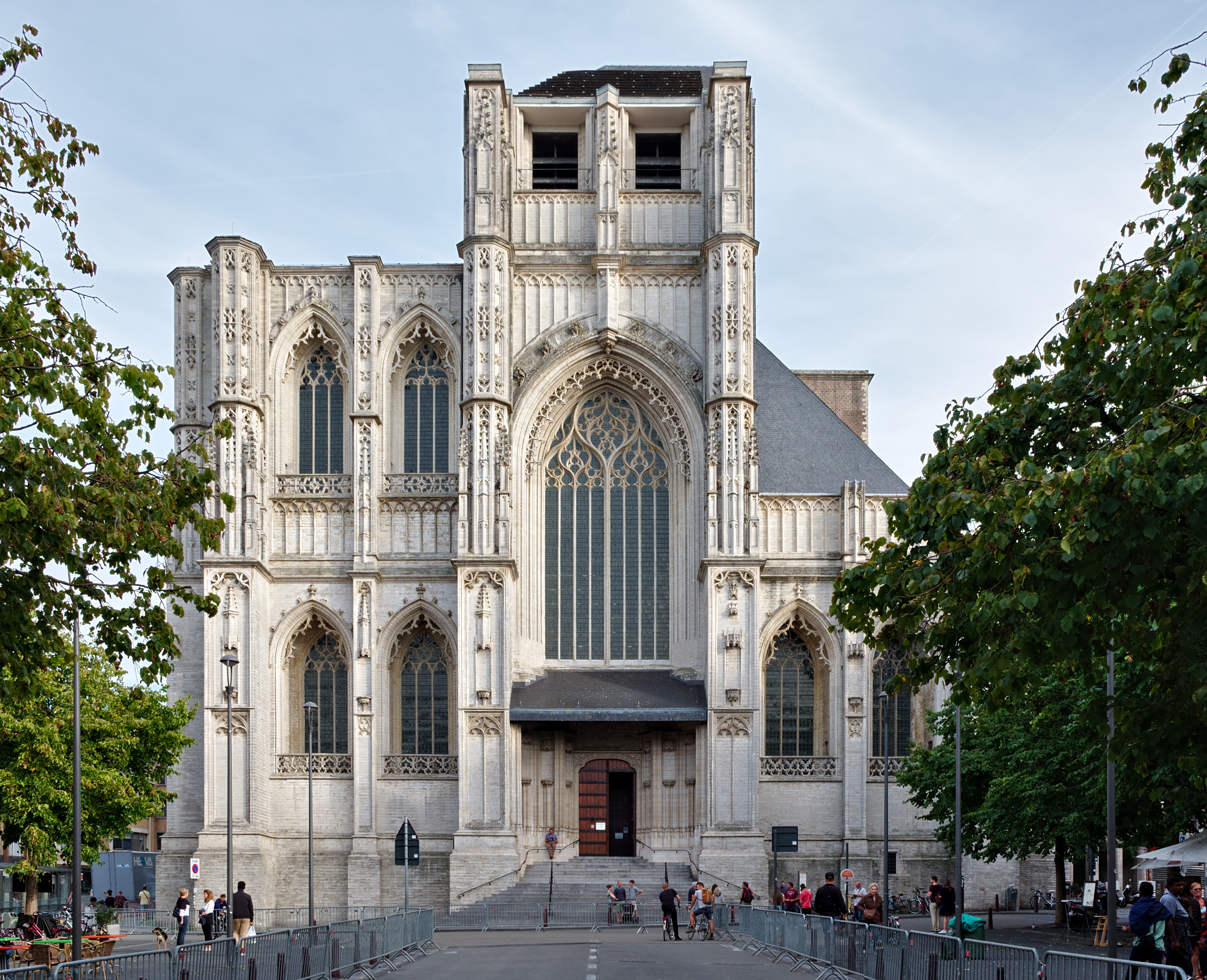 NW facade of St. Peter's Church during car-free Sunday in Leuven This photo of immovable heritage has been taken in the Flemish Region